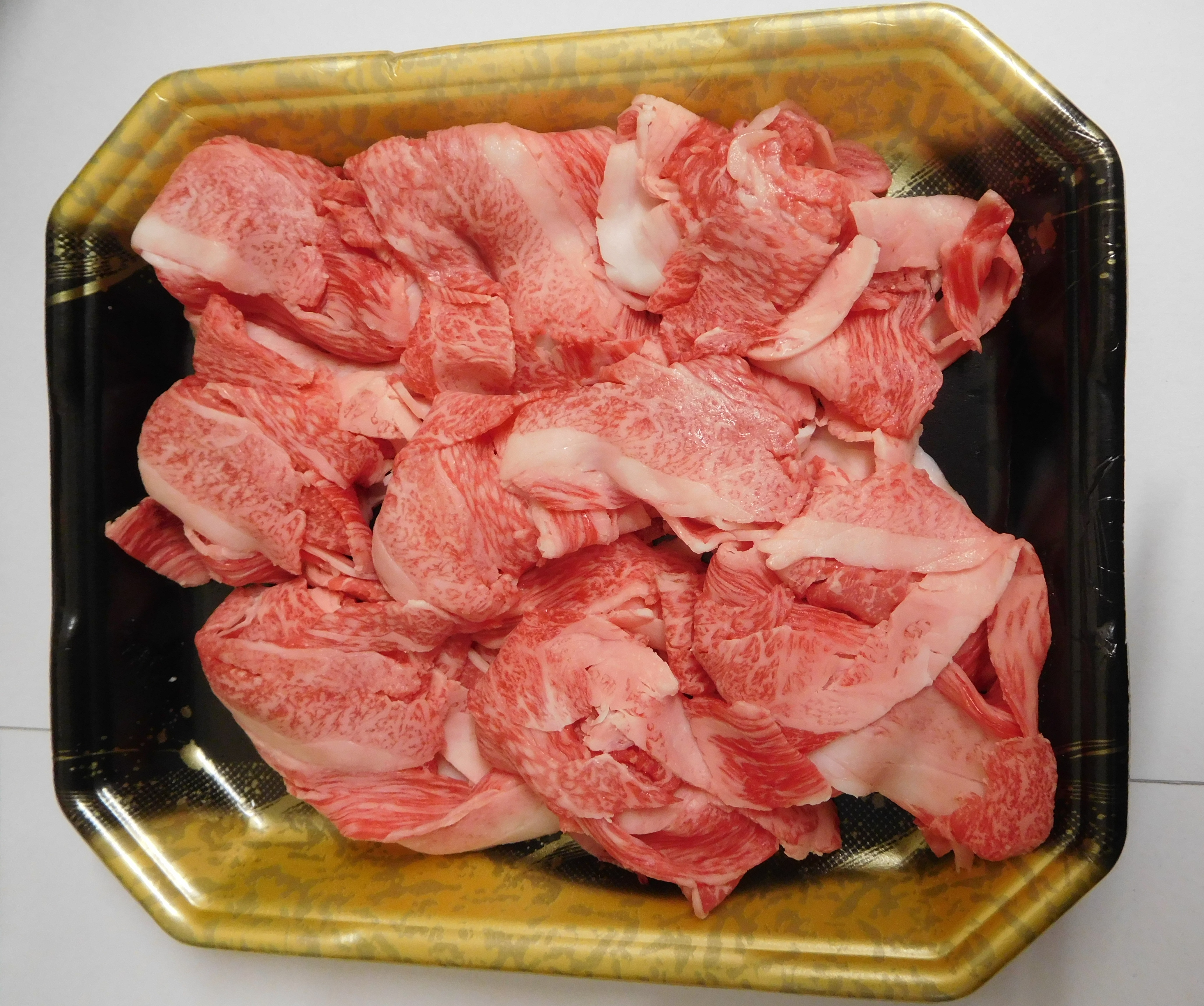 This is slice of Sendai Beef for sukiyaki. This meat consists of two kinds of beef. One was born and bred in Ōsaki, Miyagi, another was born in Towada, Aomori and was bred in Tome, Miyagi.